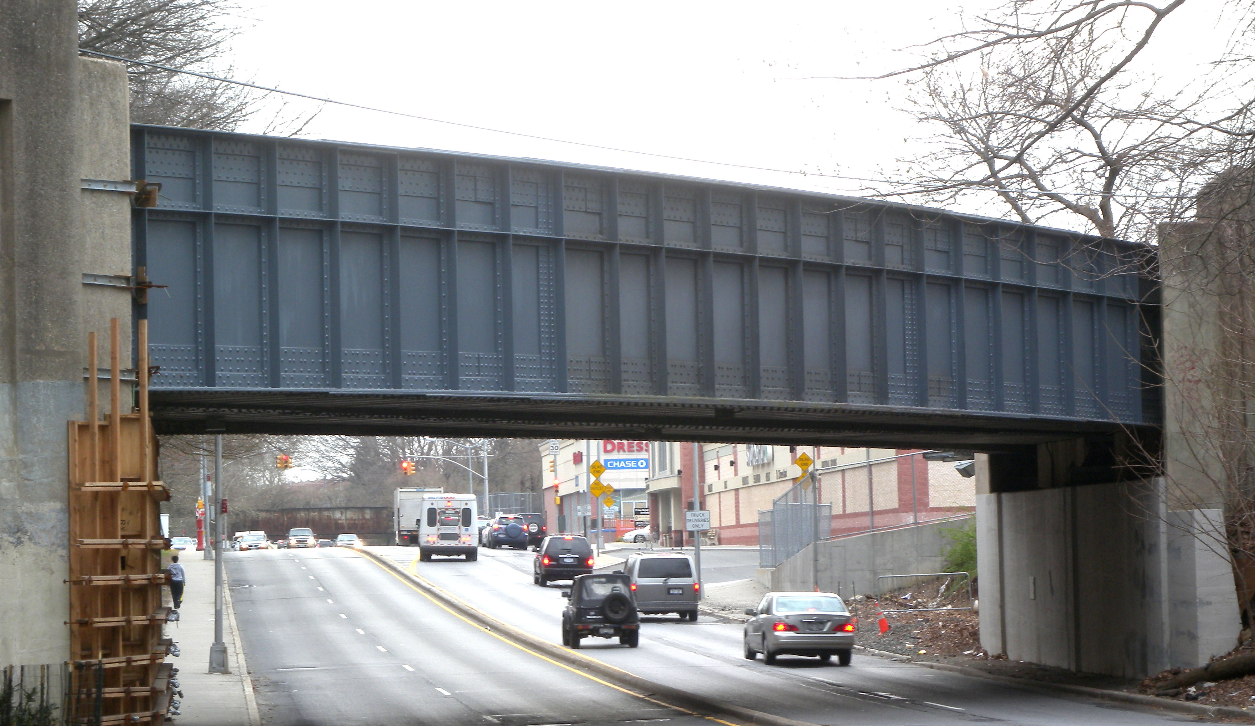 Looking west, full zoom, along Union Turnpike as it goes under Montauk Branch and Rockaway Beach Branch (background) on a cloudy afternoon.